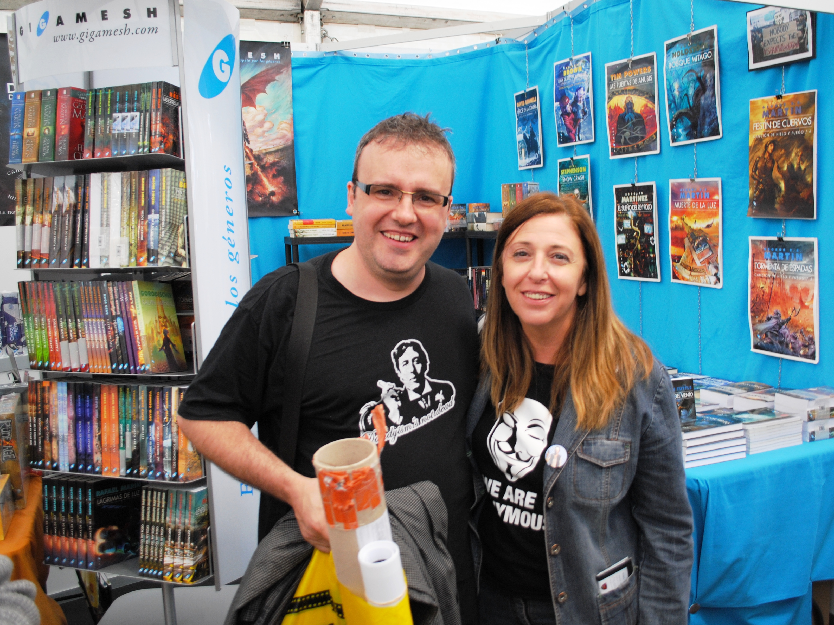 Enrique Jiménez Corominas y Cristina Macía Orío